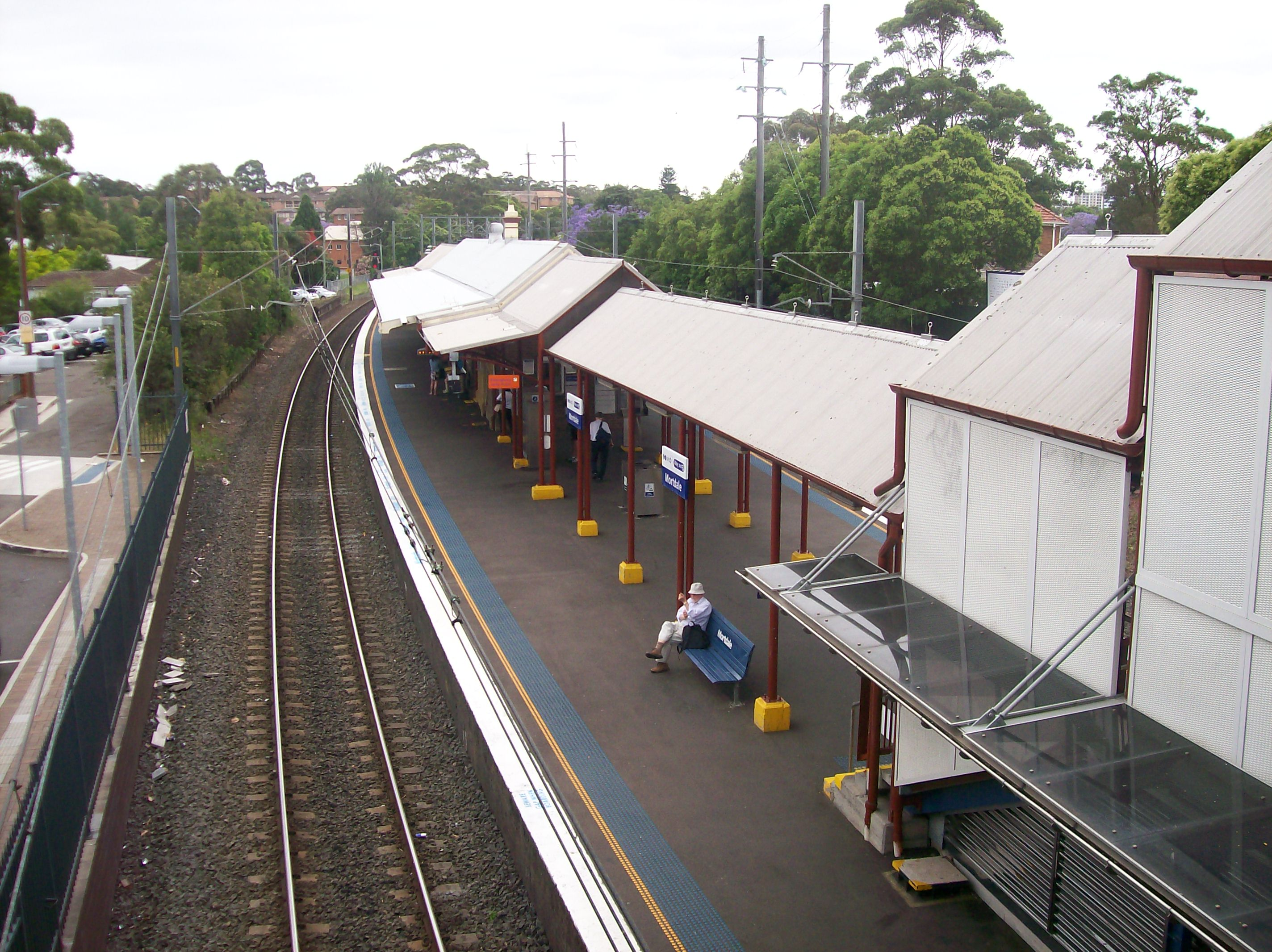 Mortdale railway station